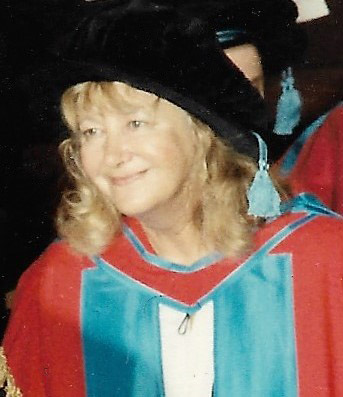 The poet Sylvia Kantaris at the University of Exeter during the bestowal on her of the Honorary degree of Doctor of Letters in 1989